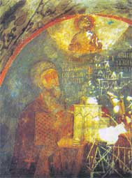 Gregorios Pacourianos. A fresco from Bachkovo